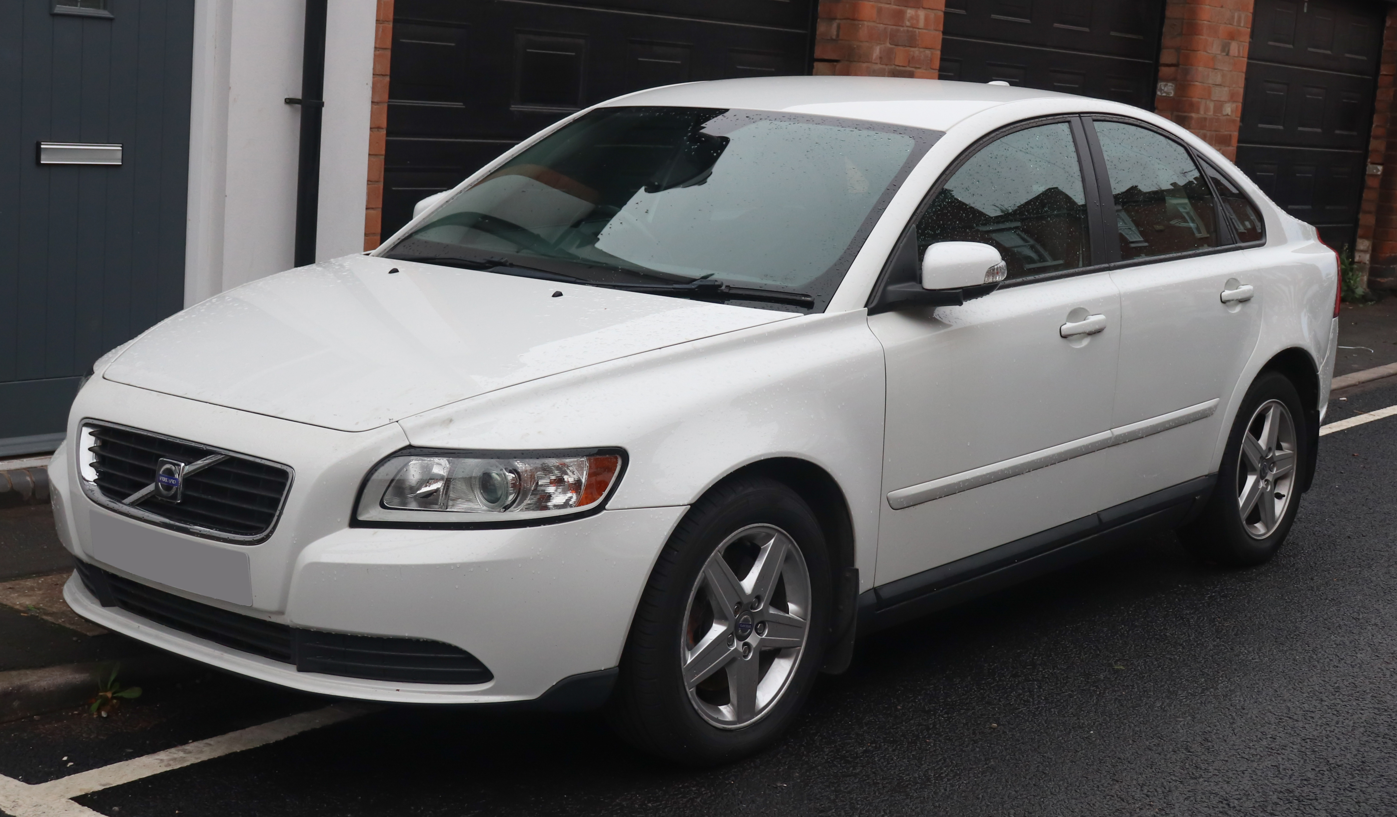 2008 Volvo S40 S Diesel Automatic 2.0 Front Taken in Leamington Spa